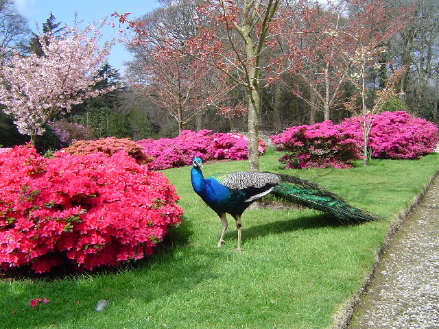 Gardens at Trevarno. The gardens are beautiful in summer and Peacocks roam free.Lots of super walks.